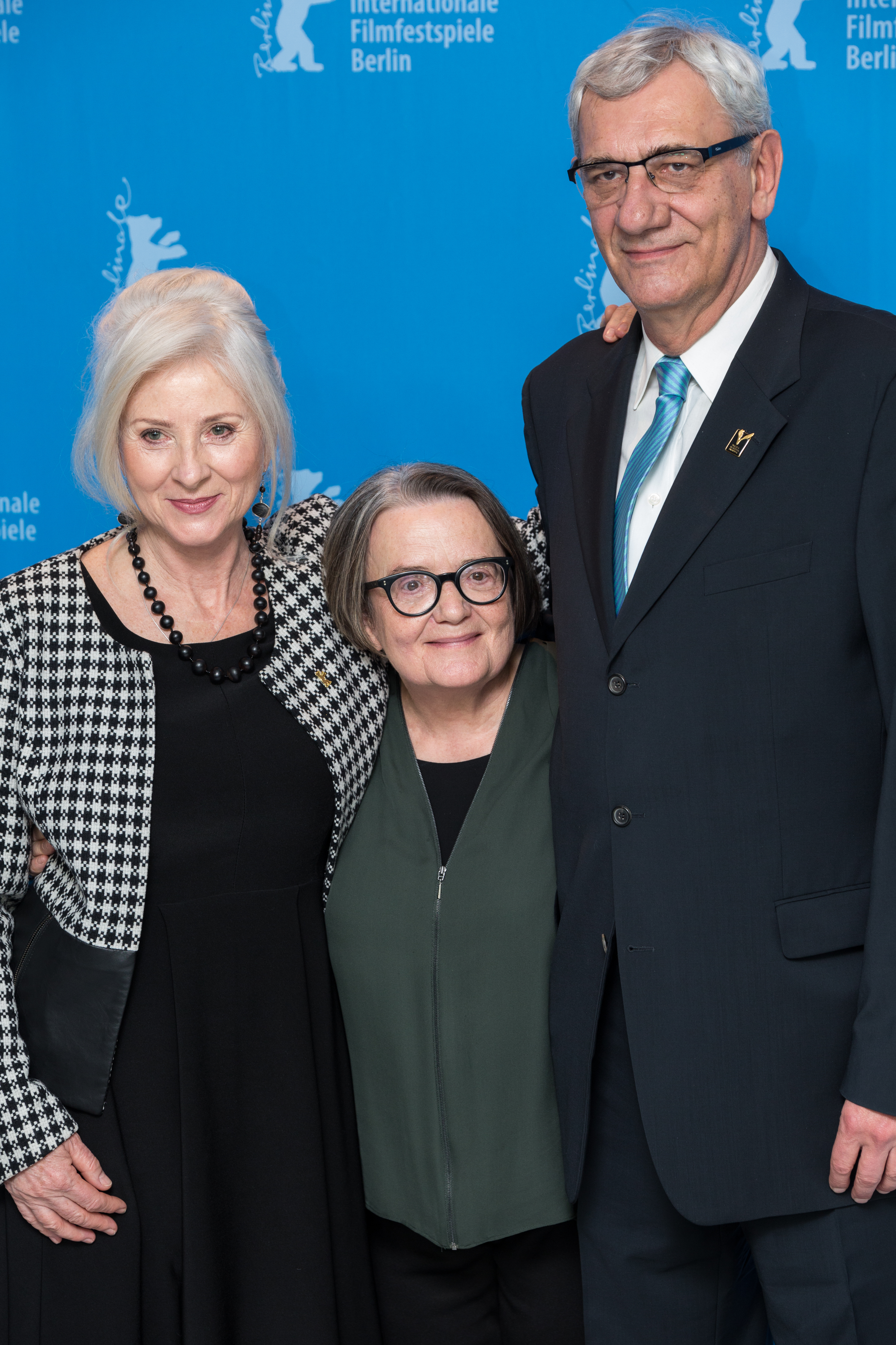 Agnieszka Mandat, Agnieszka Holland and Wiktor Zborowski at the presentation of the polish movie Spoor at the Berlinale 2017